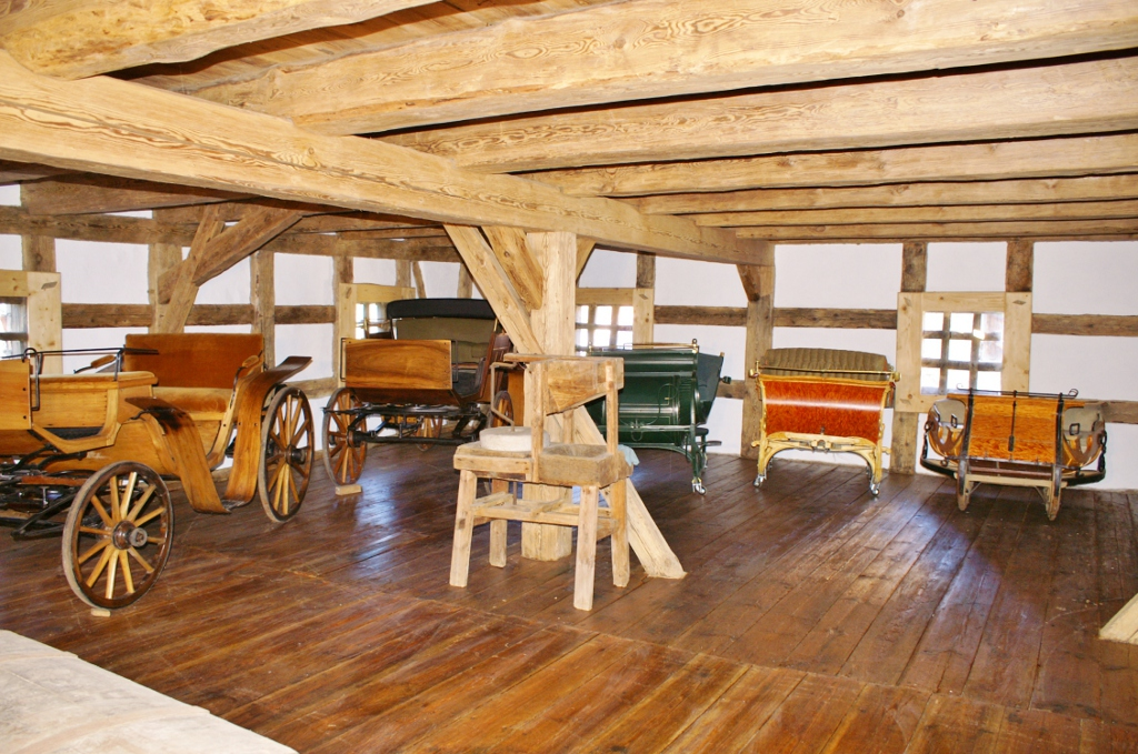 Museum of Carriages in Galowice